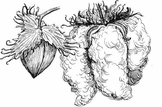 line art drawing of Boll